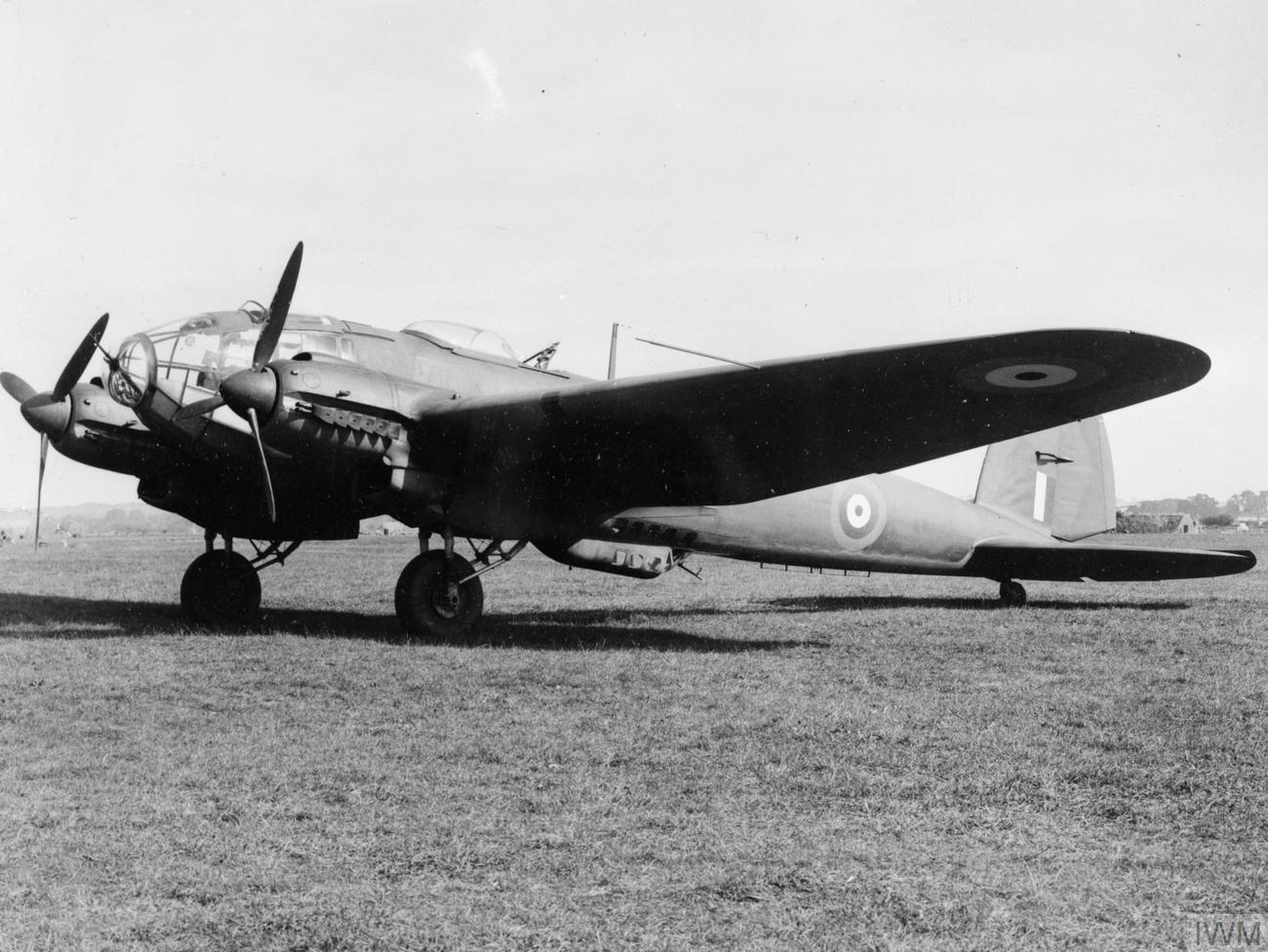 Captured Heinkel He 111H-1, RAF serial number, AW177, (formerly 1H-EN of 5/KG26), on the ground at RAF Duxford, while being operated by the Air Fighting Development Unit